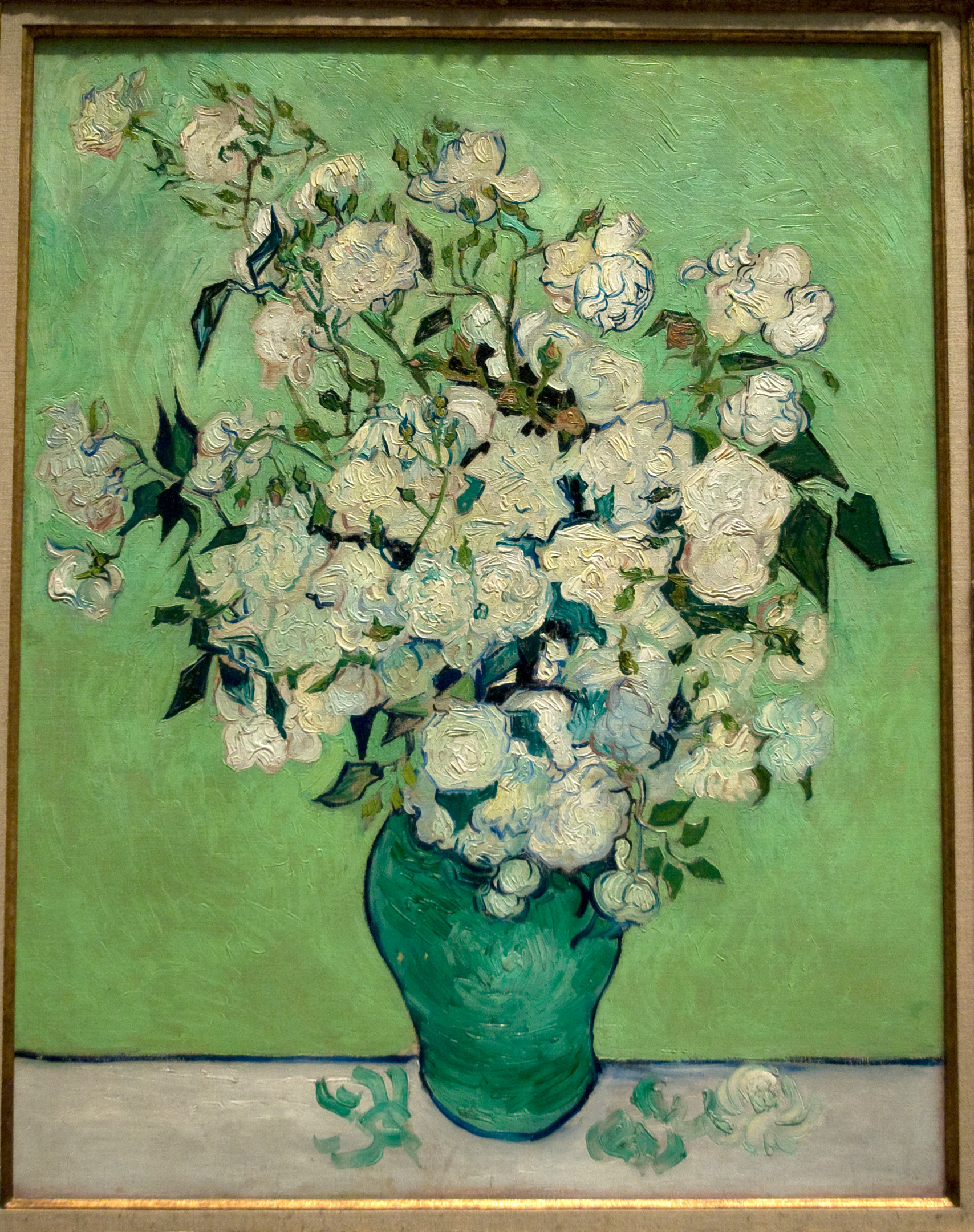 Vincent van Gogh (Dutch, 1853–1890) Vase of Roses, 1890 Oil on canvas; 36 5/8 x 29 1/8 in. (93 x 74 cm) The Metropolitan Museum of Art, New York, The Walter H. and Leonore Annenberg Collection, Gift of Walter H. and Leonore Annenberg, 1993, Bequest of Walter H. Annenberg, 2002 (1993.400.5) View at the Metropolitan Museum of Art website Wikipedia Loves Art at the Metropolitan Museum of Art This photo of item # 1993.400.5 at the Metropolitan Museum of Art was contributed under the team name "TrevorLittle" as part of the Wikipedia Loves Art project in February 2009. Metropolitan Museum of Art The original photograph on Flickr was taken by trevorlittle—please add a comment to the original Flickr page whenever a use has been made on Wikipedia or another project. Project galleries on Flickr: this institution, this team Vincent van Gogh (Dutch, 1853–1890) Vase of Roses, 1890 Oil on canvas; 36 5/8 x 29 1/8 in. (93 x 74 cm) The Metropolitan Museum of Art, New York, The Walter H. and Leonore Annenberg Collection, Gift of Walter H. and Leonore Annenberg, 1993, Bequest of Walter H. Annenberg, 2002 (1993.400.5) View at the Metropolitan Museum of Art website Wikipedia Loves Art at the Metropolitan Museum of Art This photo of item # 1993.400.5 at the Metropolitan Museum of Art was contributed under the team name "TrevorLittle" as part of the Wikipedia Loves Art project in February 2009. Metropolitan Museum of Art The original photograph on Flickr was taken by trevorlittle—please add a comment to the original Flickr page whenever a use has been made on Wikipedia or another project. Project galleries on Flickr: this institution, this team